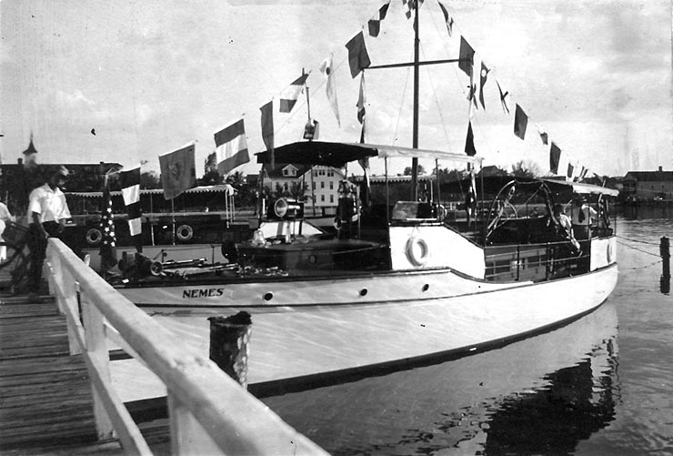 The motorboat Nemes, prior o her service as the United States Navy patrol vessel USS Nemes (SP-424).